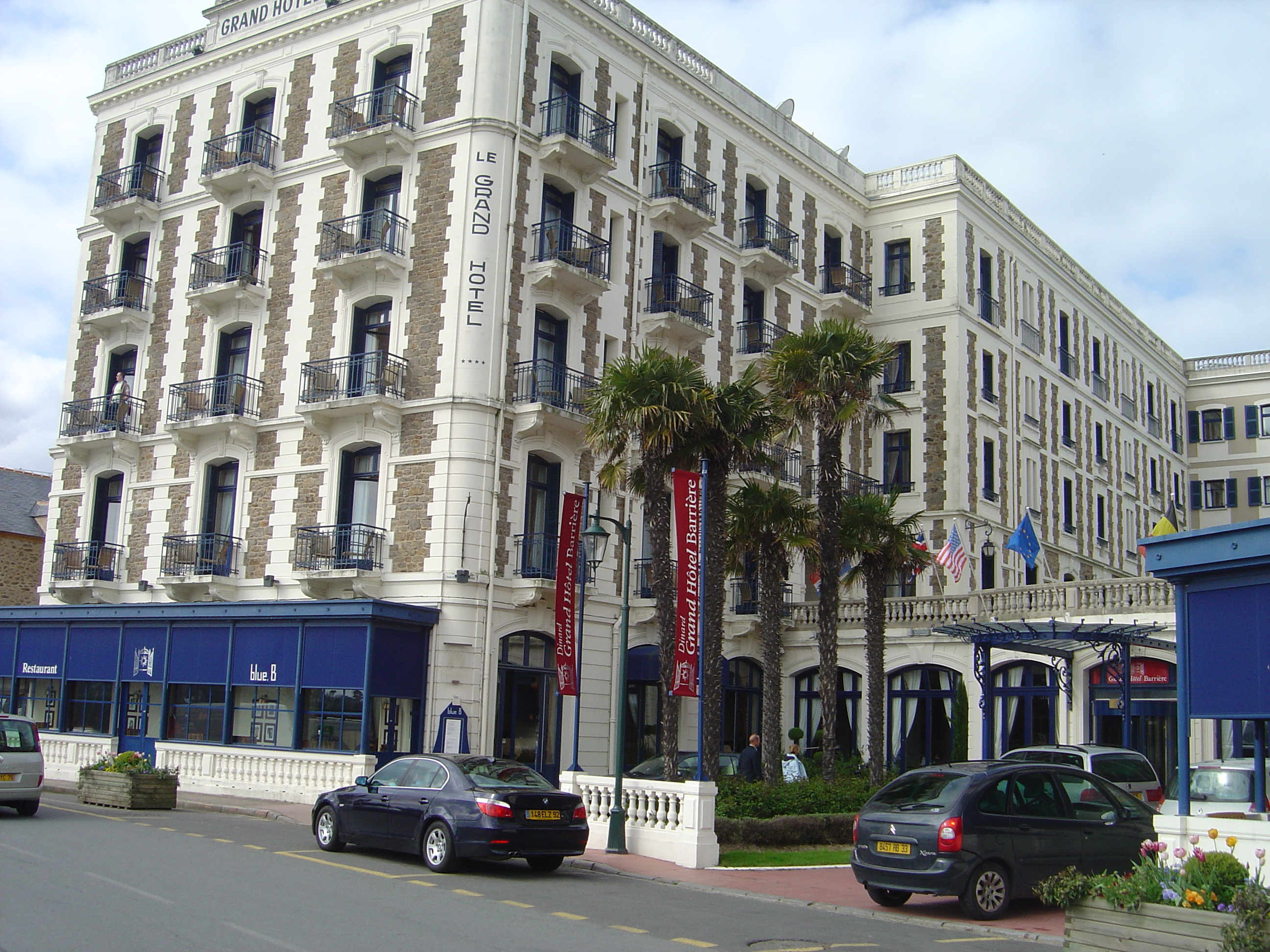 Le Grand Hôtel de Dinard, hôtel mythique de plus de 150 ans de la station, un des rares à avoir résisté à la fuite des touristes vers la Côte d'Azur.